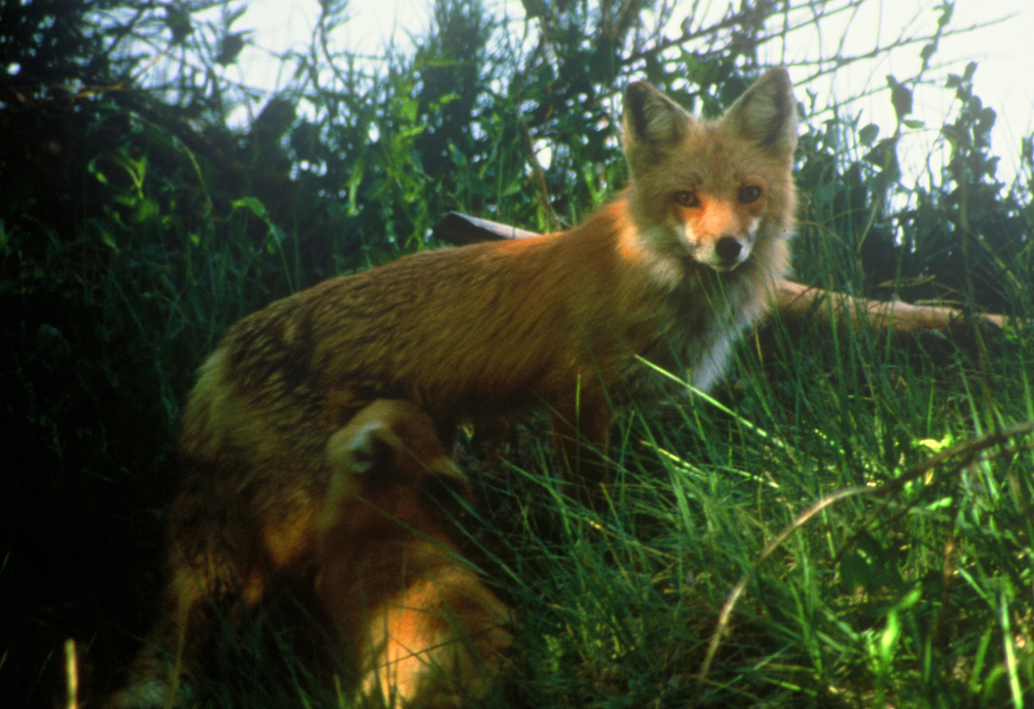 Fox at Two Ponds